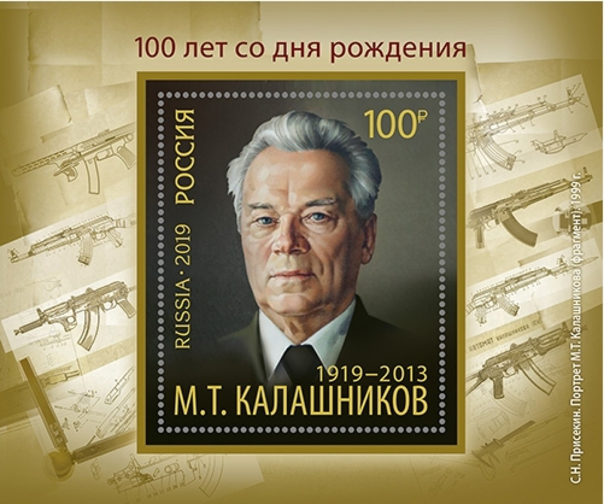 Centenary of Birth of Mikhail Kalashnikov, arms developer